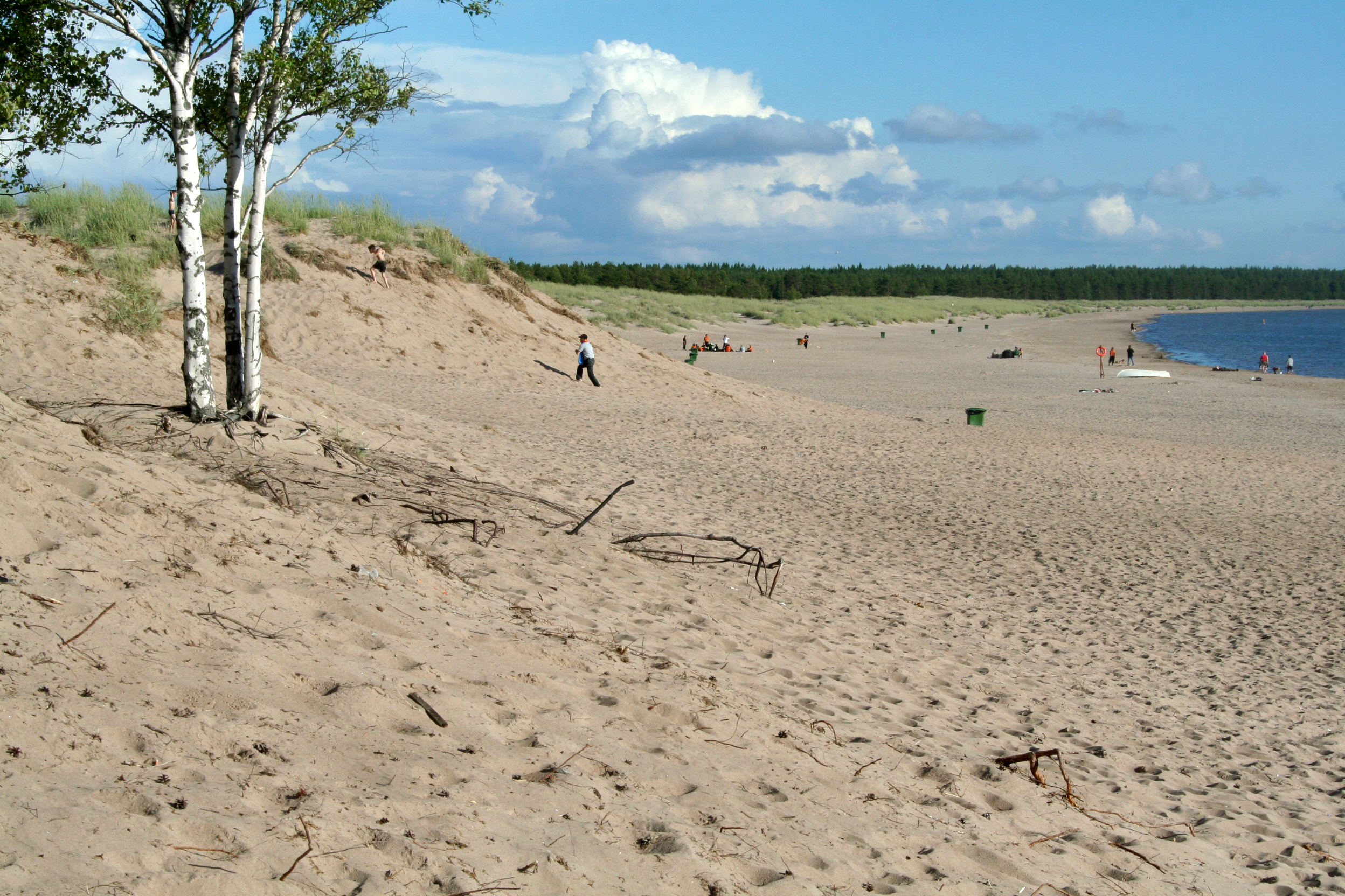 Yyteri beach at Pori, Finland